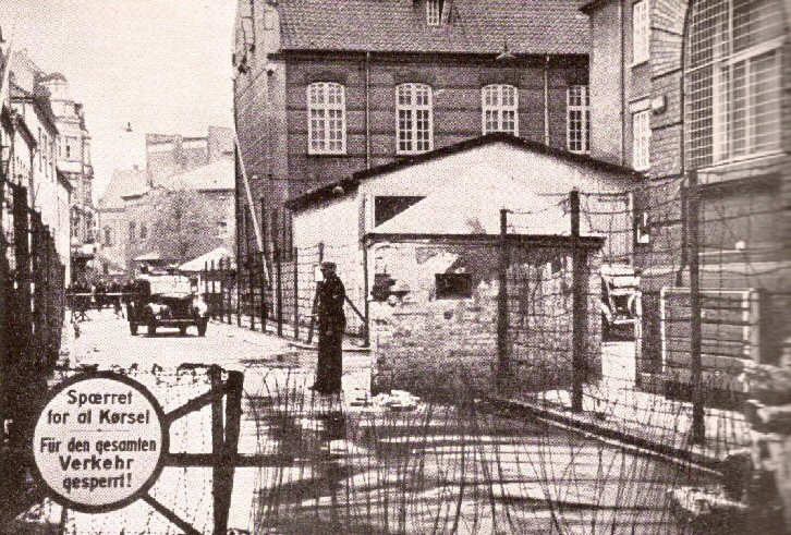 Gestapo Headquarters in aarhus, Denmark World War II, 1945